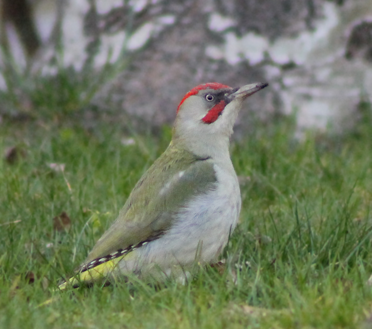 A male Iberian Woodpecker (Picus sharpei) in Madrid (Spain).